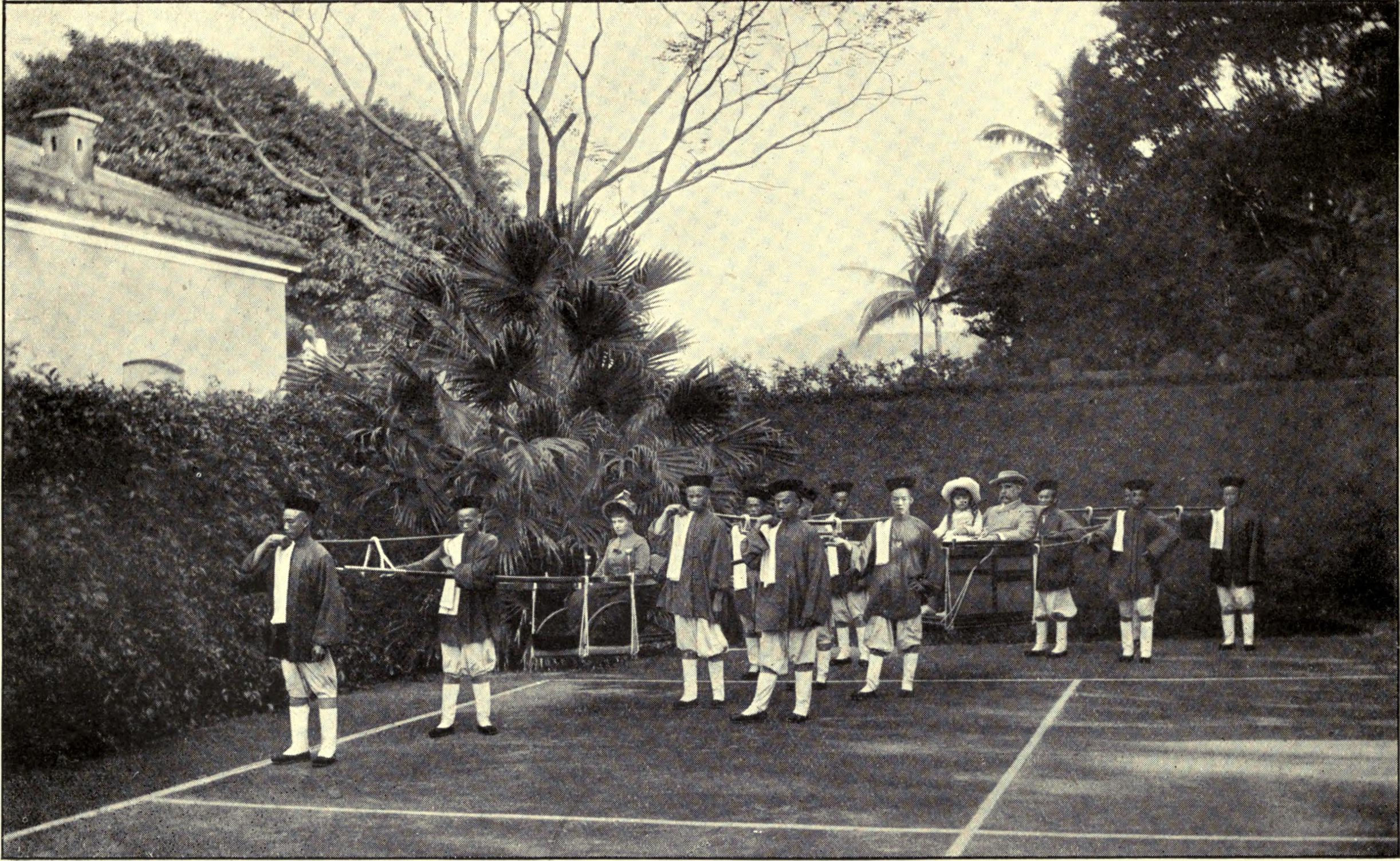 Chair-carriages in Hong Kong, showing Countess de Bardi on the left, and William Des Vœux with his daughter on the right.